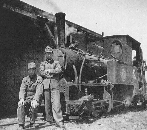 Nemuro Takushoku Tramway